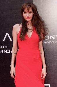 Angelina Jolie at the Moscow «Salt» premiere, July 25, 2010.